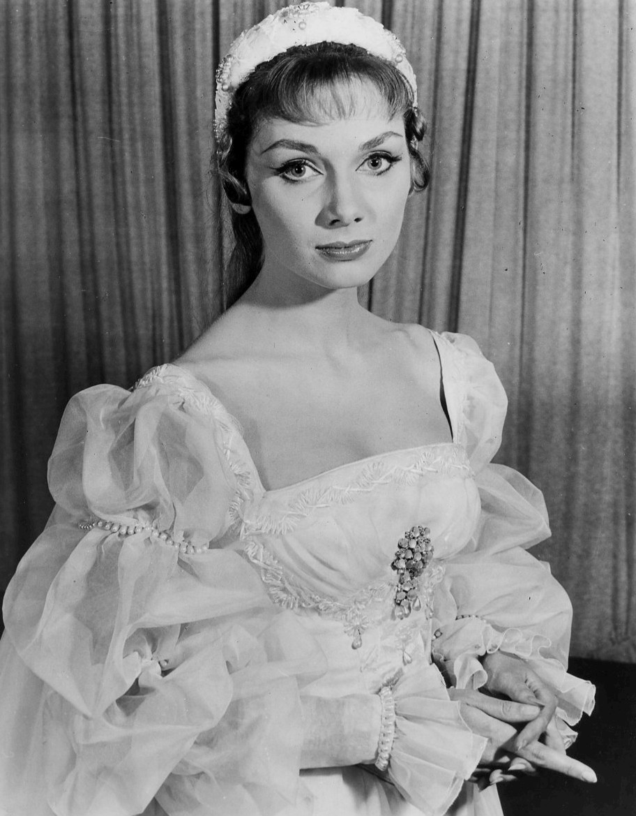 Photo of Inga Swenson as Ophelia from the American Shakespeare Festival's 1958 season.